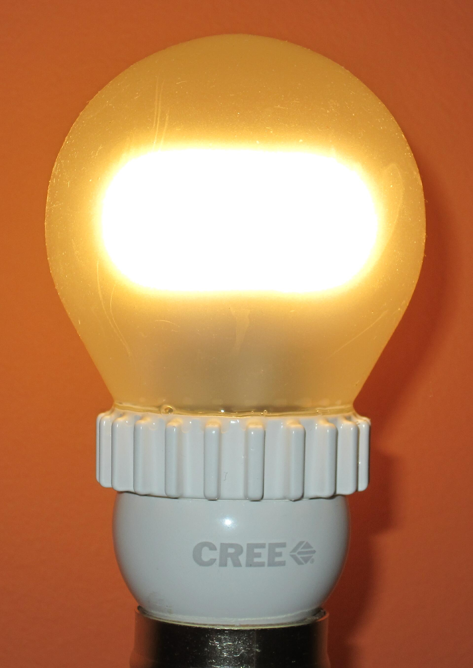 A Cree 800 lumen LED lamp intended for general lighting. It has a color temperature of 2700 K, similar to incandescent bulbs. The product was introduced in 60 and 40 watt replacement ratings in March 2013. The LED lamp equivalent to a 60 watt incandescent uses only 9.5 watts. The product starts immediately and is dimmable with incandescent-compatible dimmers.